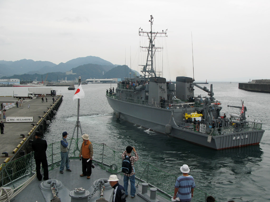 JMSDF minesweeper Sugashima (MSC-681) at the port of Yaizu.